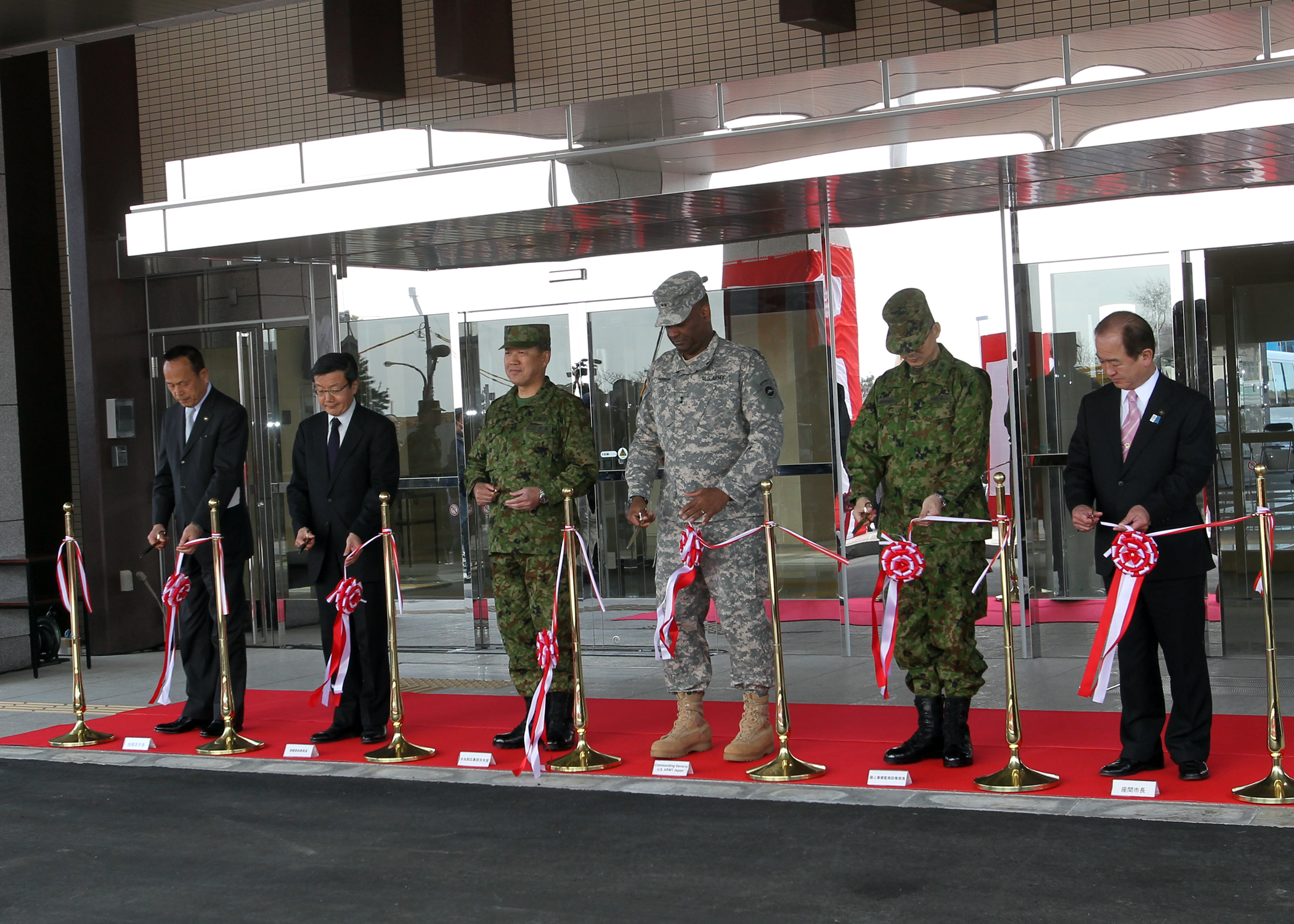 The ribbon is cut on the new headquarters building of the Japan Ground Self-Defense Force's Central Readiness Force during a ceremony held March 26, 2013, on Camp Zama, Japan. Among those cutting the ribbon on the new facility were U.S. Army Japan and I Corps (Forward) Commander Maj. Gen. Michael T. Harrison Sr., Central Readiness Force Commanding General Lt. Gen. Masahiro Hidaka, and the mayors of Zama City and Sagamihara City, where Camp Zama is located.